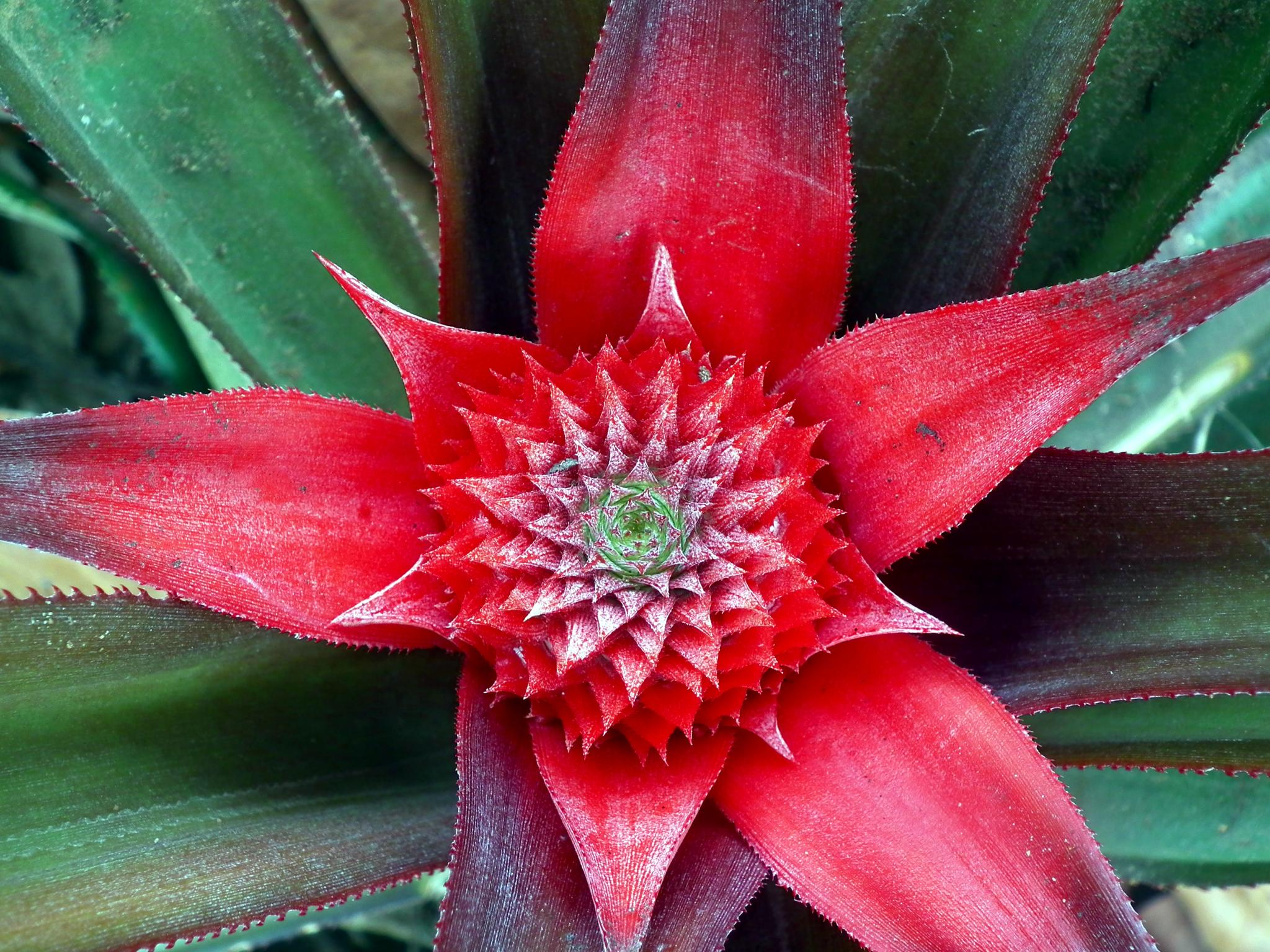 Pineapple (Ananas comosus) is the common name for a tropical plant and its edible fruit, which is actually a multiple fruit consisting of coalesced berries.